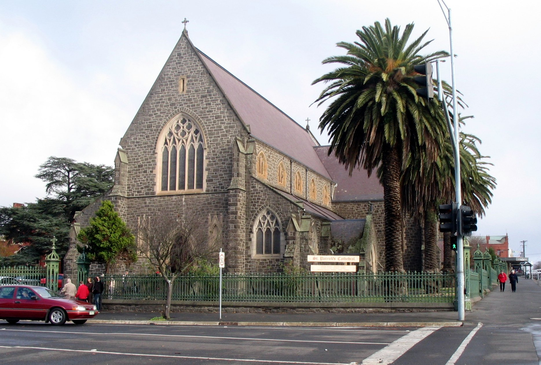 St Patrick's Roman Catholic cathedral in Ballarat (Victoria, Australia)